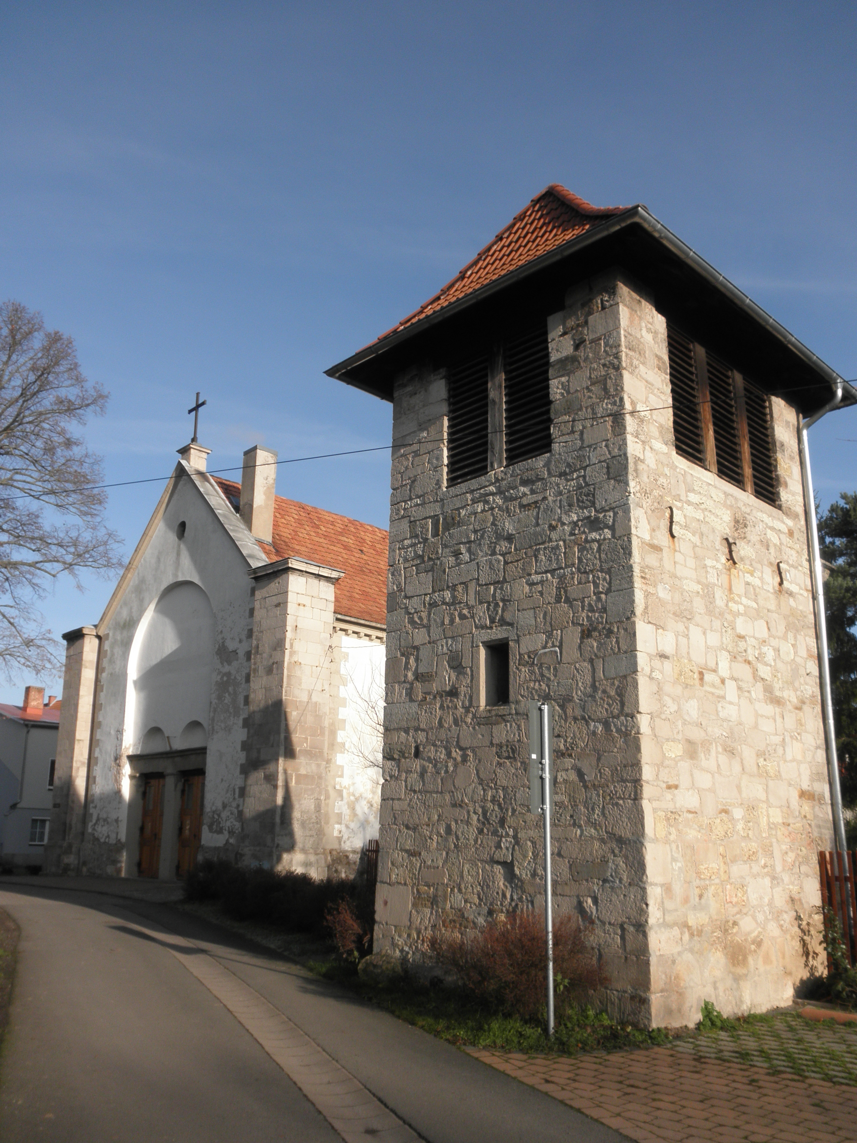 Church and Bell Tower in Salza (Nordhausen) in Thuringia